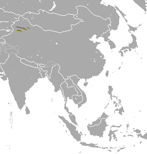 Ili Pika (Ochotona iliensis) range